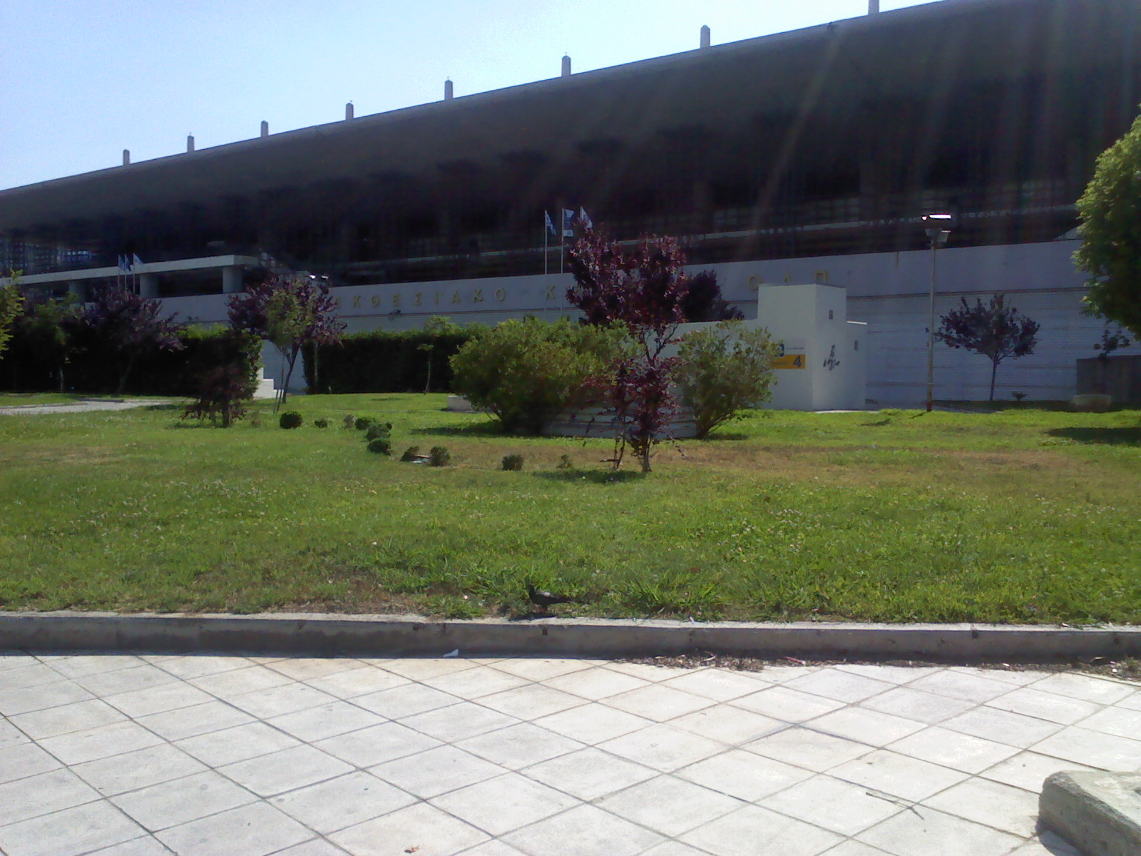 Ekthesiako kentro OLP